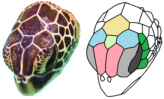 Green turtle, Chelonia mydas